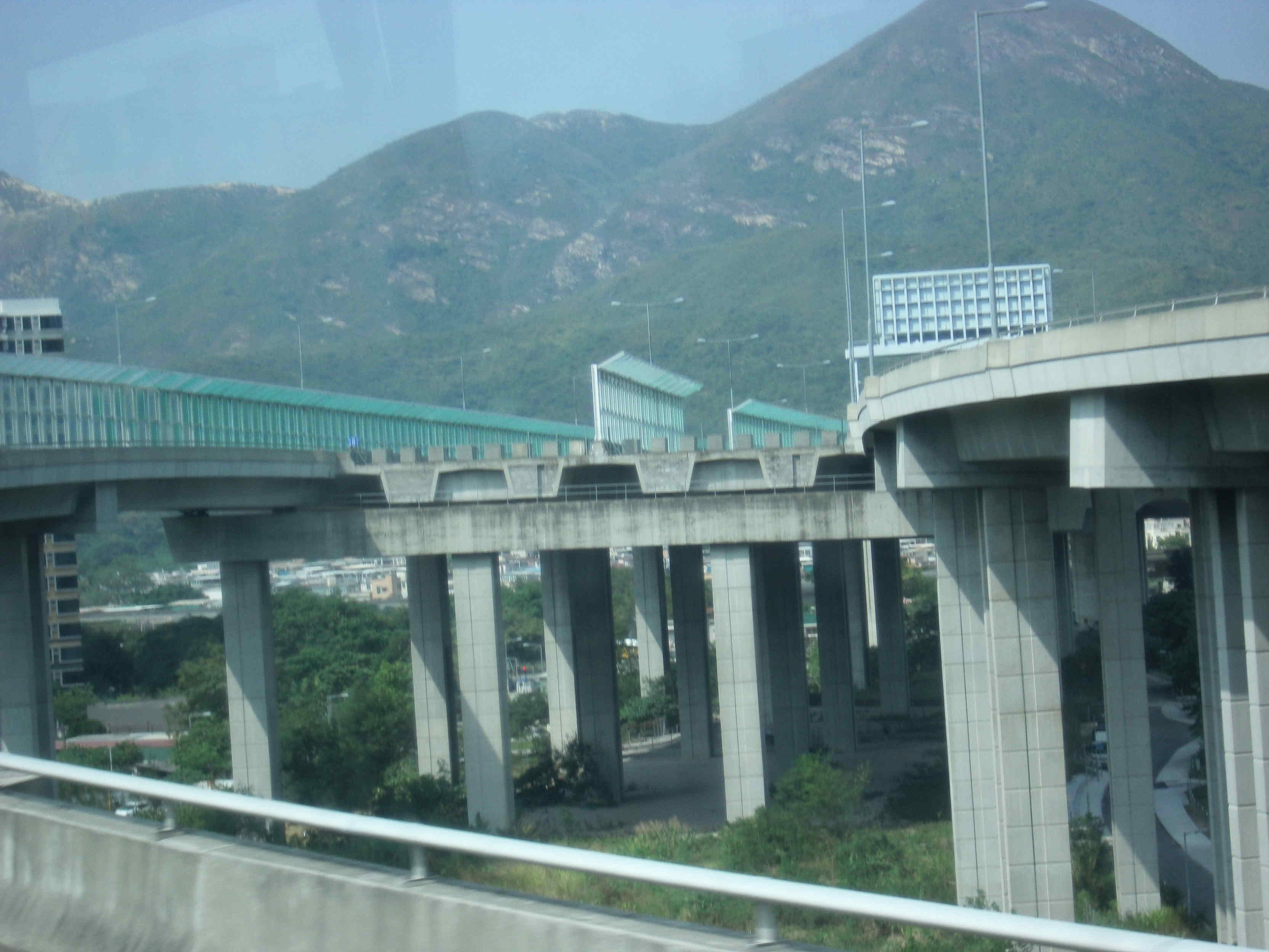 Kong Sham Western Highway reserved joint to route 10 in Hong Kong